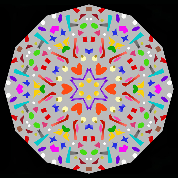 30-degree kaleidocope image